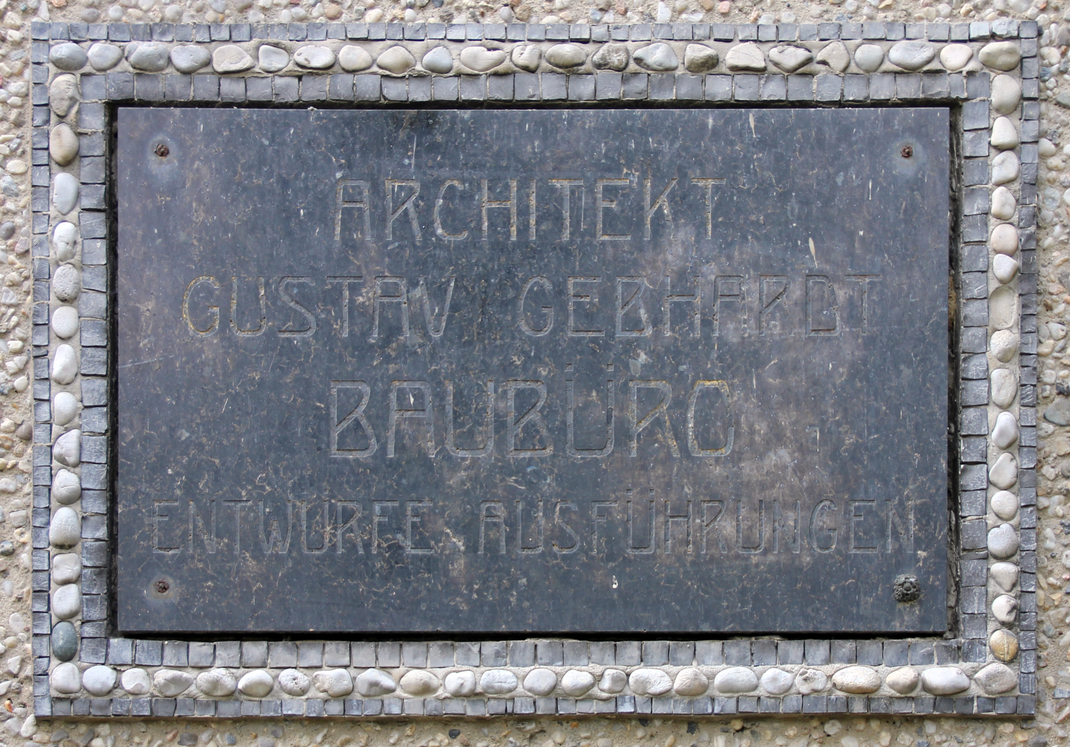 Memorial plaque, Gustav Gebhardt, Parkaue 10, Berlin-Lichtenberg, Germany